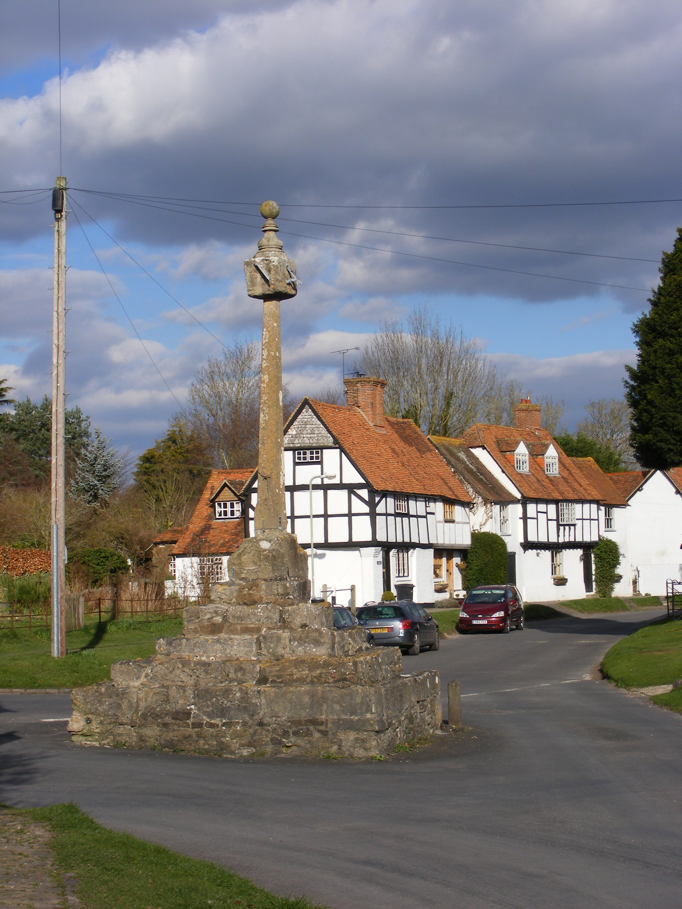 15th-century village cross with 18th-century sundial finial in East Hagbourne, Oxfordshire (formerly Berkshire)